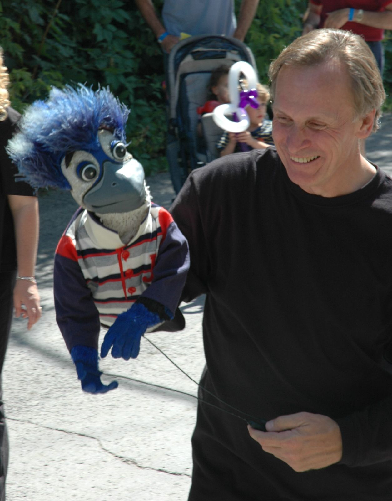 Stephen Brathwaite and "Under the Umbrella Tree" puppet Jacob Bluejay in 2006.